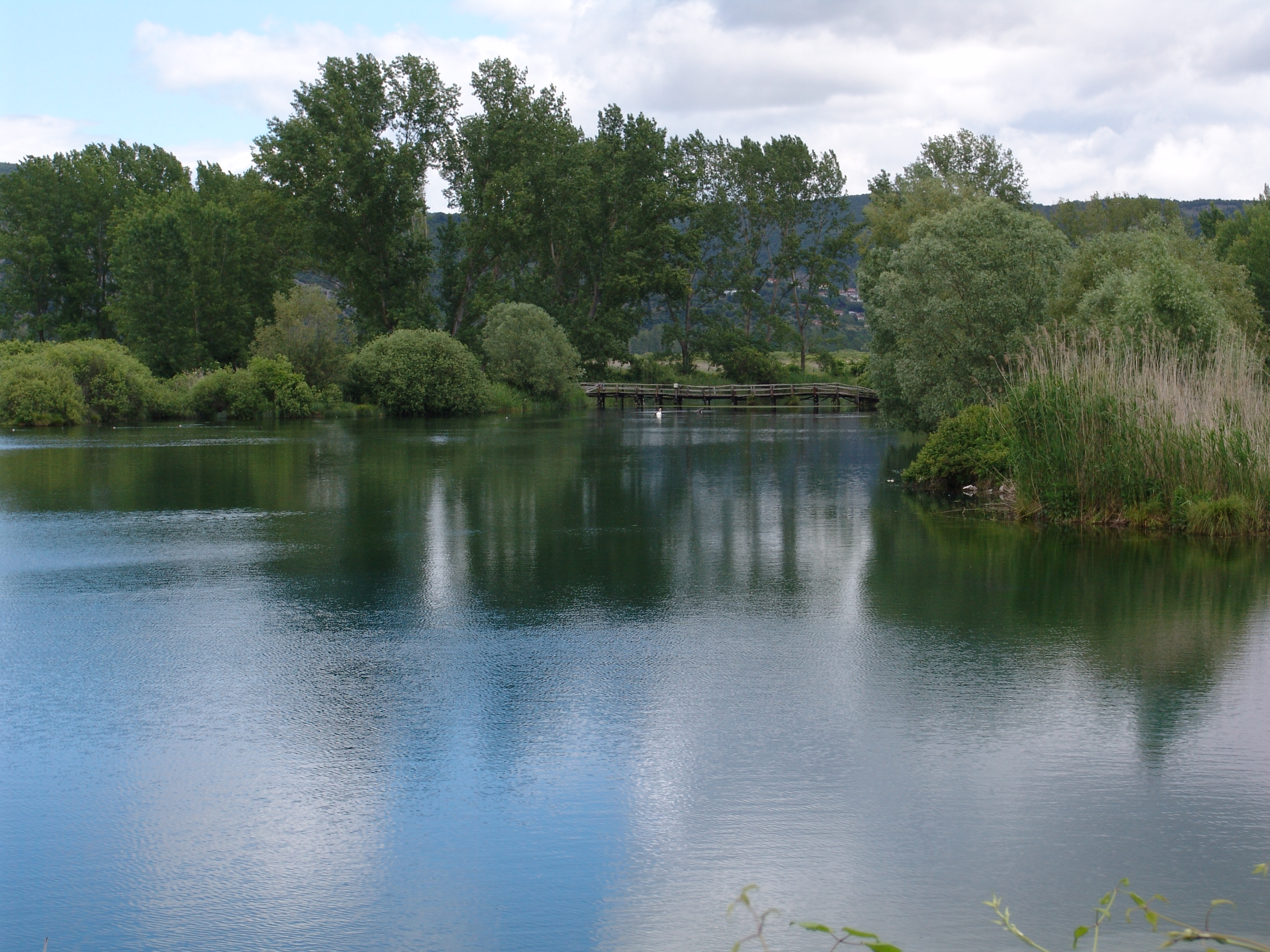 This is a photography of Natura 2000 protected area with ID GR1240004